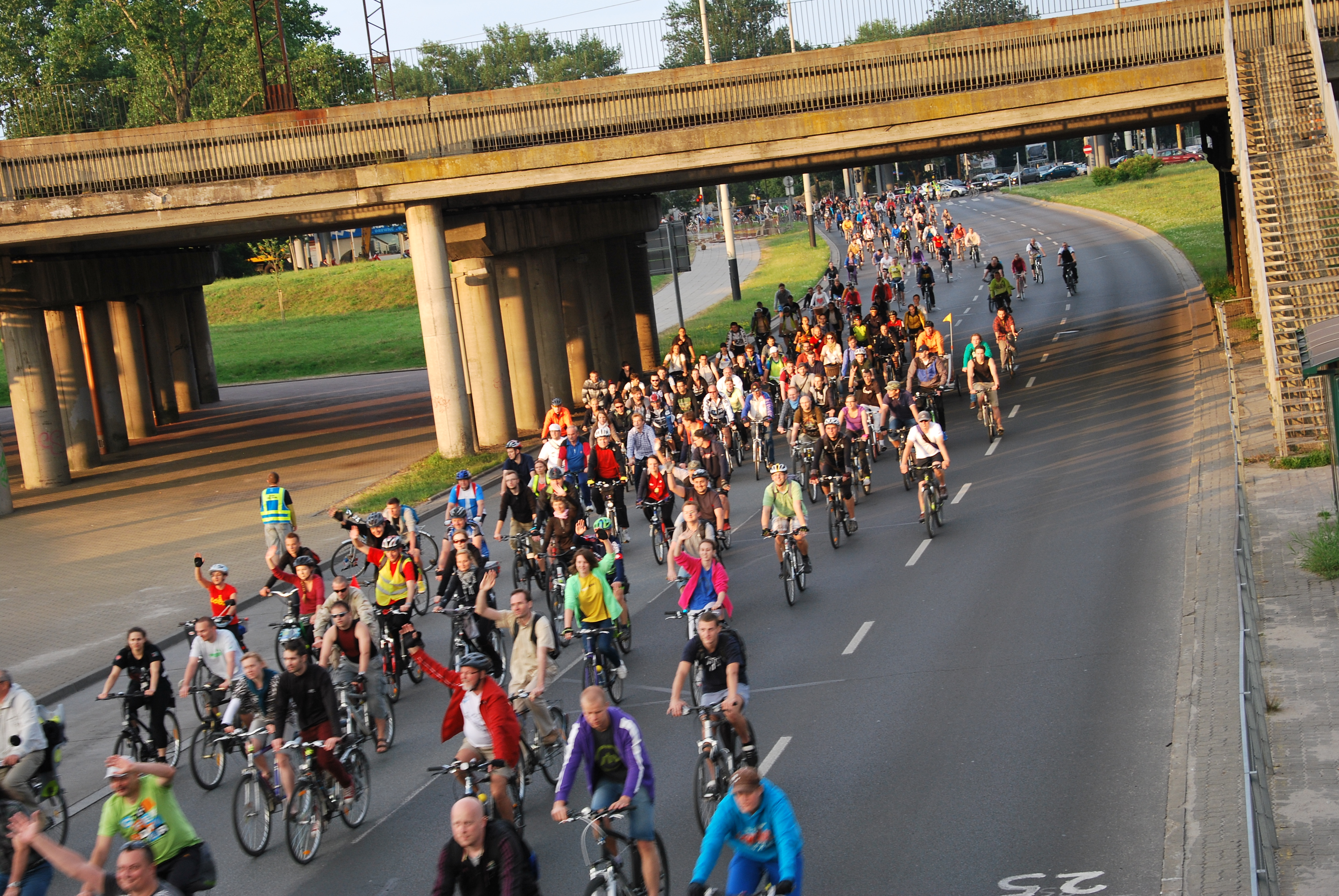 142nd annual Critical Mass in Łódź, June 2013 - 14 years of Critical Mass in Łódź